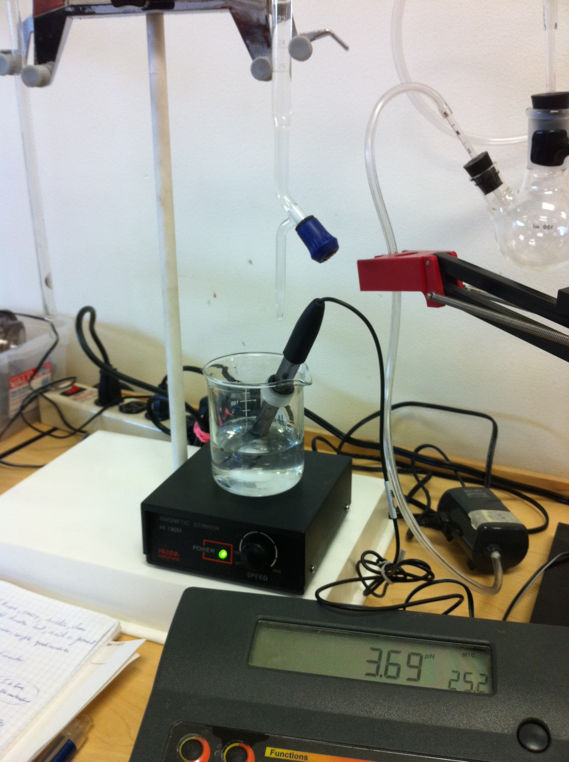 Winery lab bench work during a Titration Assay (TA) test to determine the acidity of a wine. The wine sample is diluted with distilled water and titrated with NaOH while the pH is measured with a pH meter.